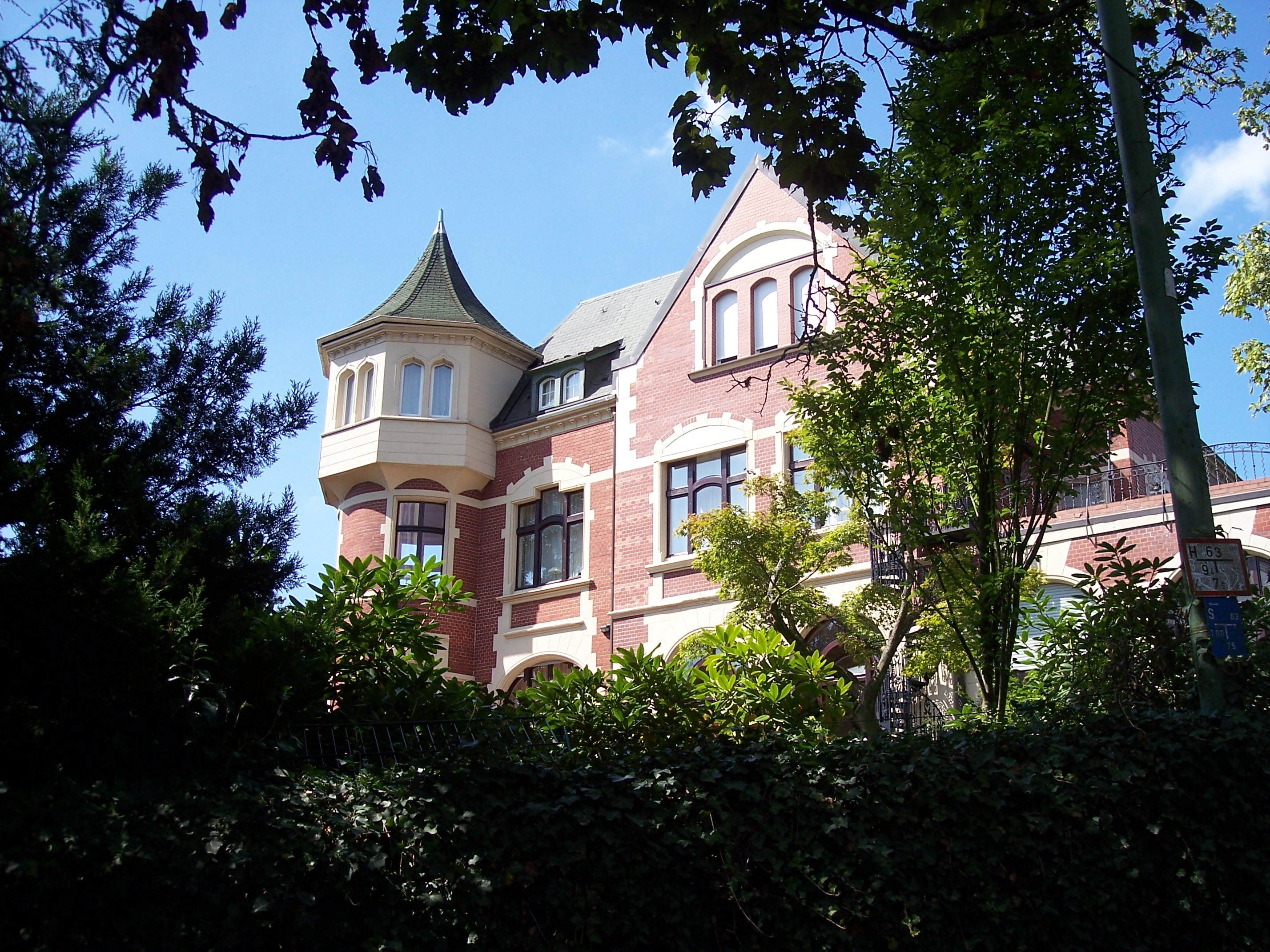 Lüdenscheid, historic Villa Assmann.